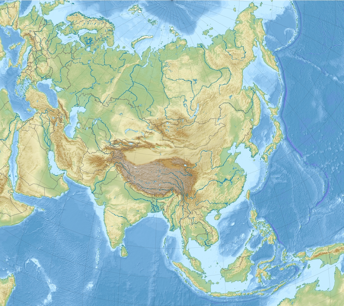 Relief Location map of Asia. Projection: Lambert azimuthal equal-area projection. Area of interest: N: 90.0° N S: -10.0° N W: 45.0° E E: 145.0° E Projection center: NS: 40.0° N WE: 95.0° E GMT projection: -JA95/50/20.0c GMT region: -R45.70461034279053/-25.193892806246794/-158.9850042825966/36.990936559512505r GMT region for grdcut: -R-20.0/-26.0/205.0/90.0r Relief: SRTM30plus. Made with Natural Earth. Free vector and raster map data @ .